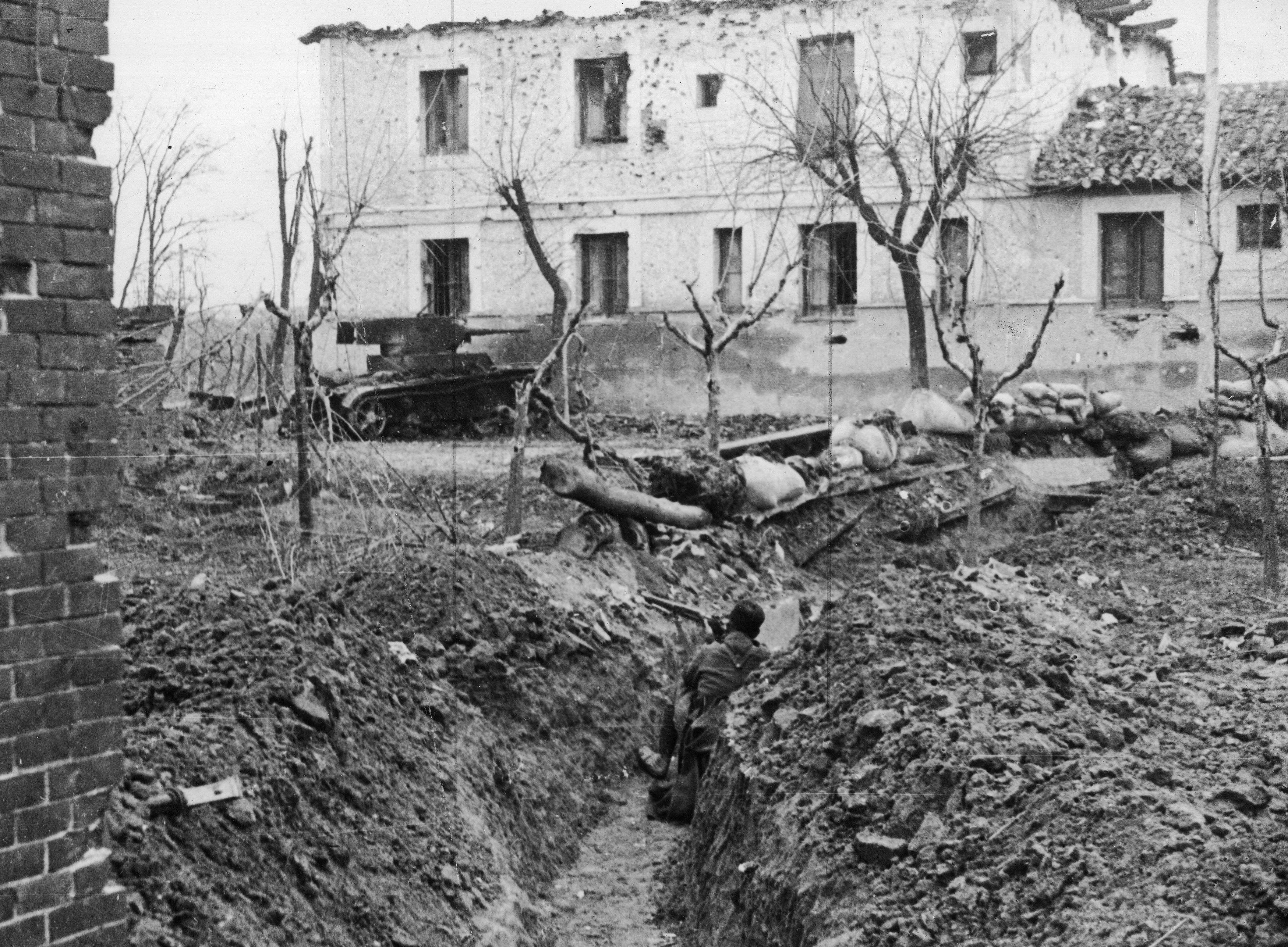 Nationalist trench in the Escorial, with a knocked T-26 Republican tank next to a wall.